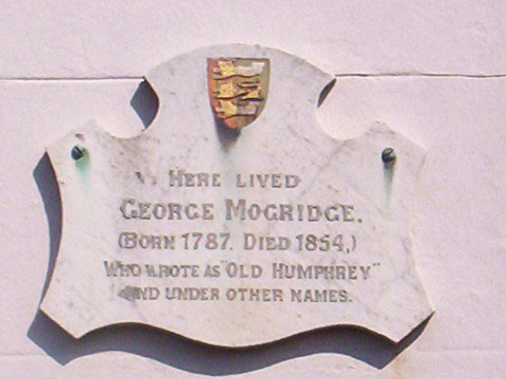 Plaque on the home of George Mogridge (Old Humphrey) at 6 High Wickham, Hastings, Sussex.